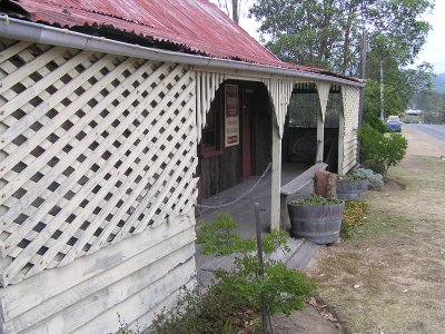 Rising Sun Inn, Millfield: Rising Sun Inn (former)